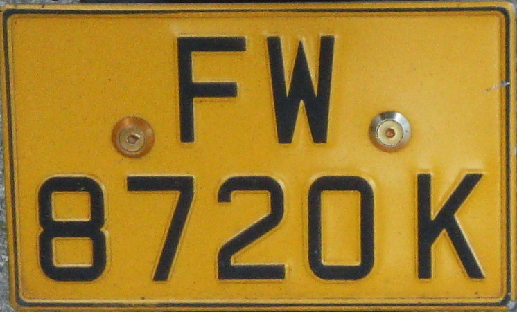 A Singapore black-on-yellow rear vehicle registration plate of a motorcycle.